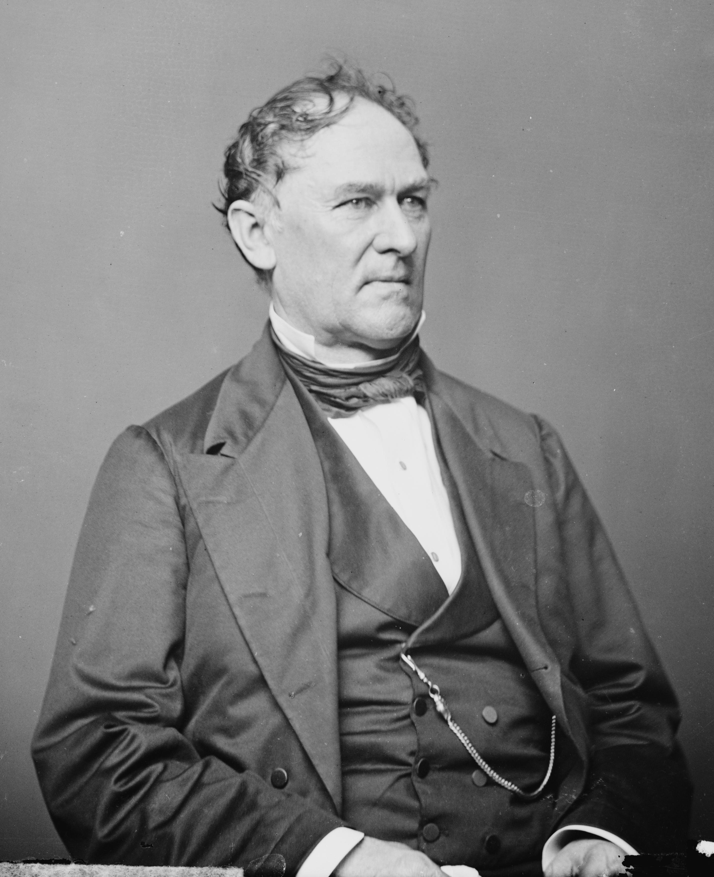 Orville Hickman Browning. Library of Congress description: "Hon. O. H. Browning"